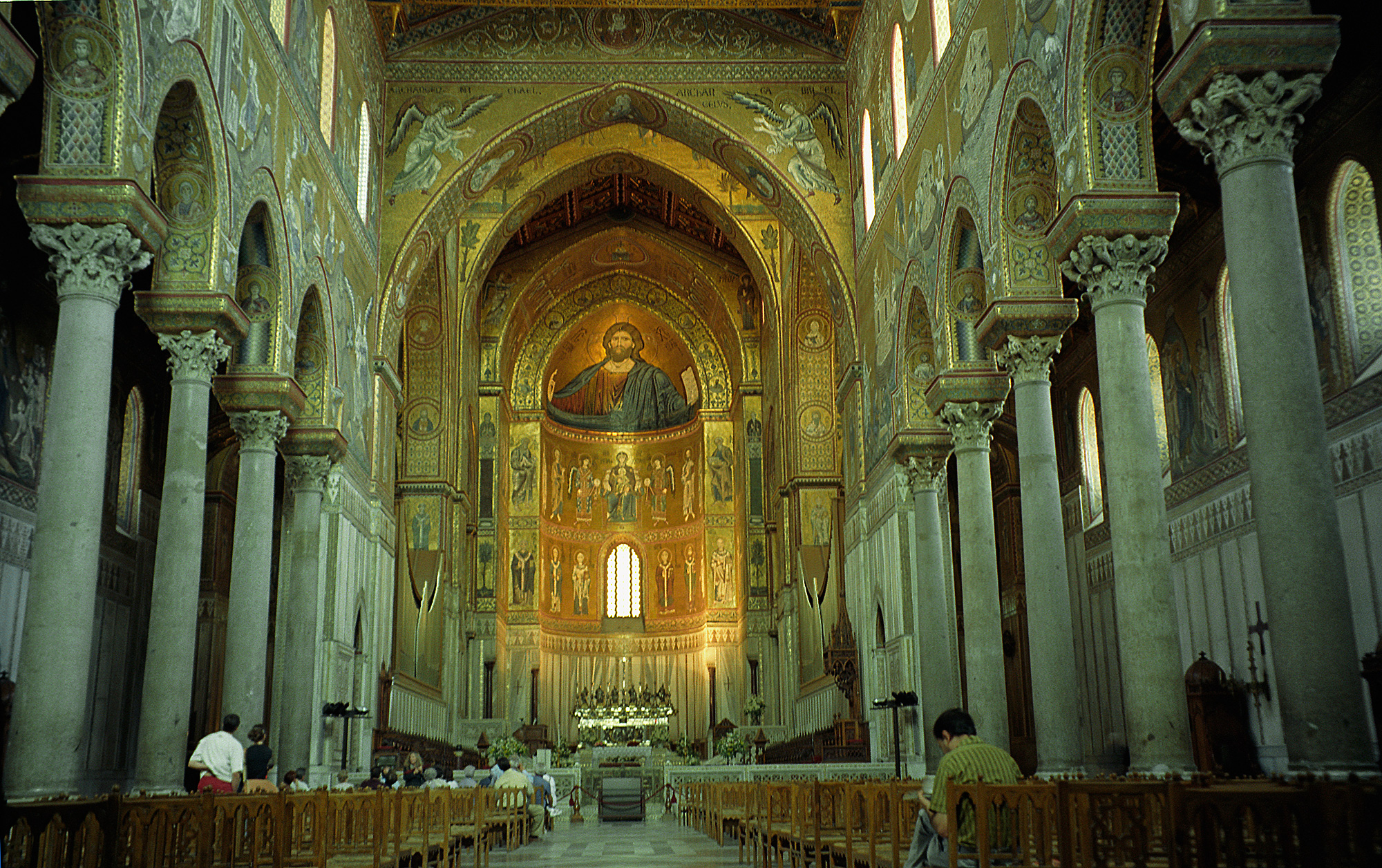 Sicily, The Cathedral Monreale